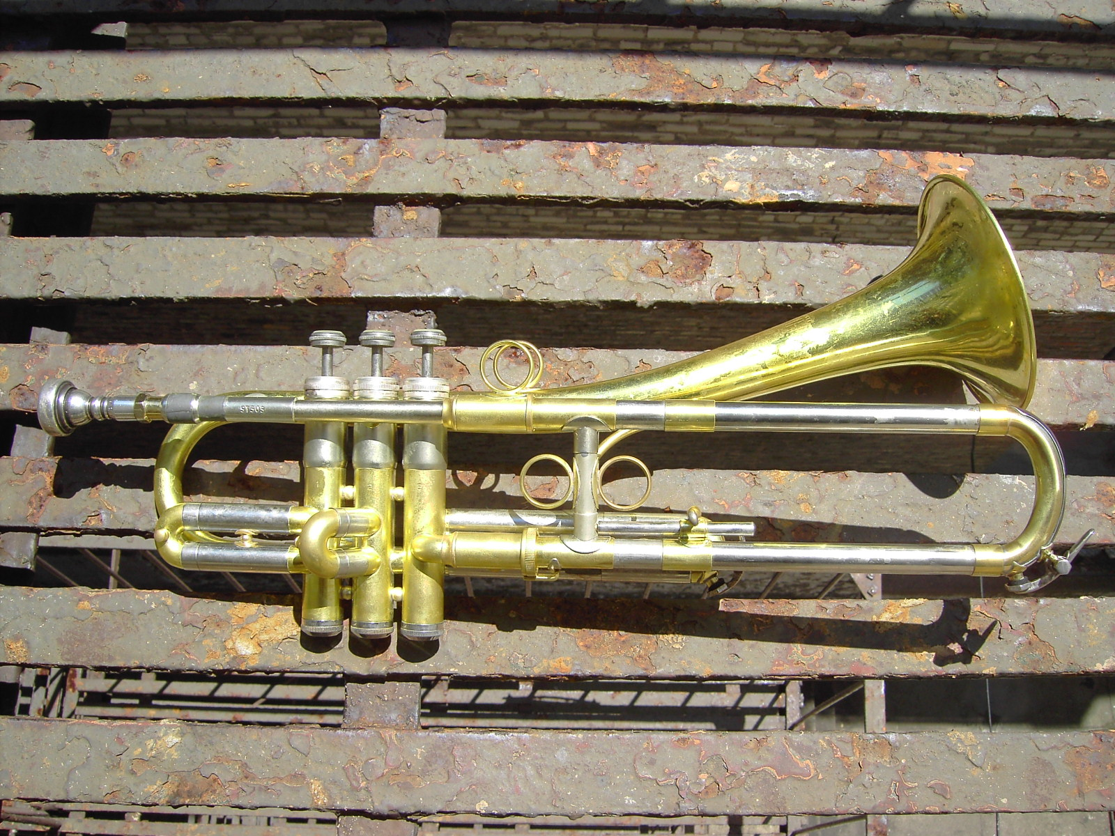 A firebird trumpet which differs from stock in that the Amado waterkeys have been replaced by standard lever waterkeys, and a slide guard has been added.